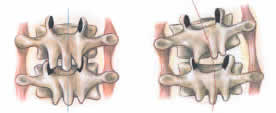 Intertransversarii muscles from Gray's Anatomy